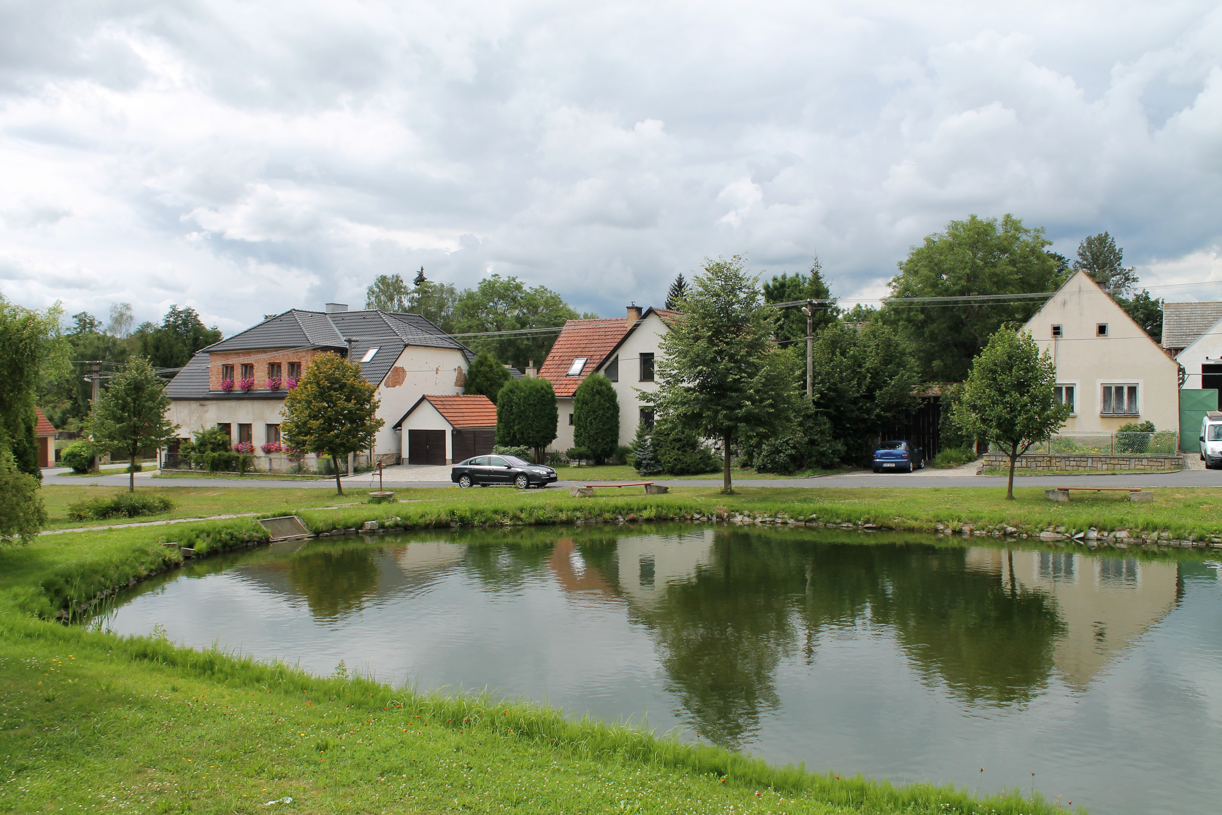 Horní Myslová, Jihlava District, Czech Republic